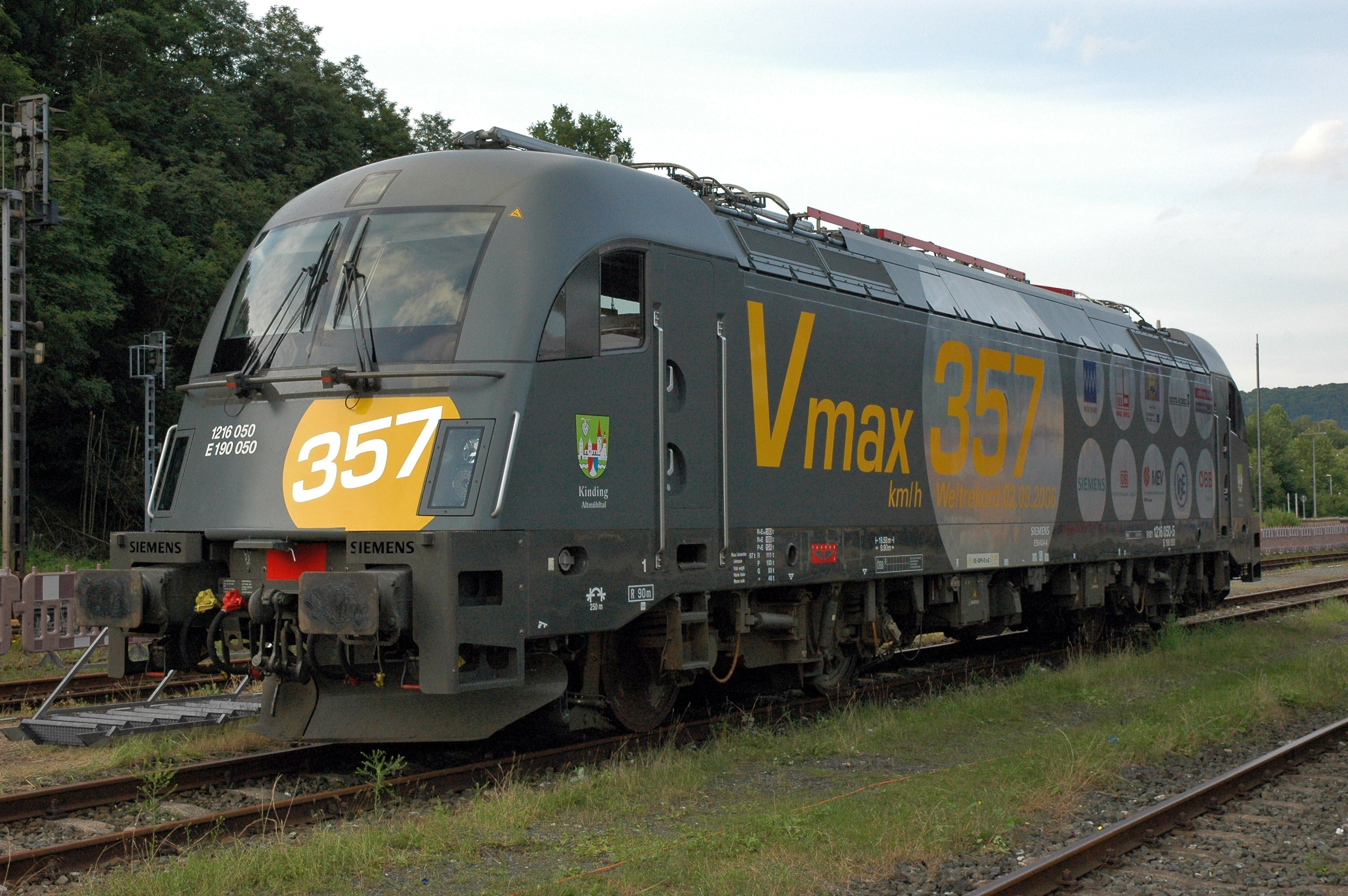 Record locomotive 1216 050 while a rail exhibition at Hersbruck